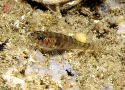 Picture of Gammogobius steinitzi